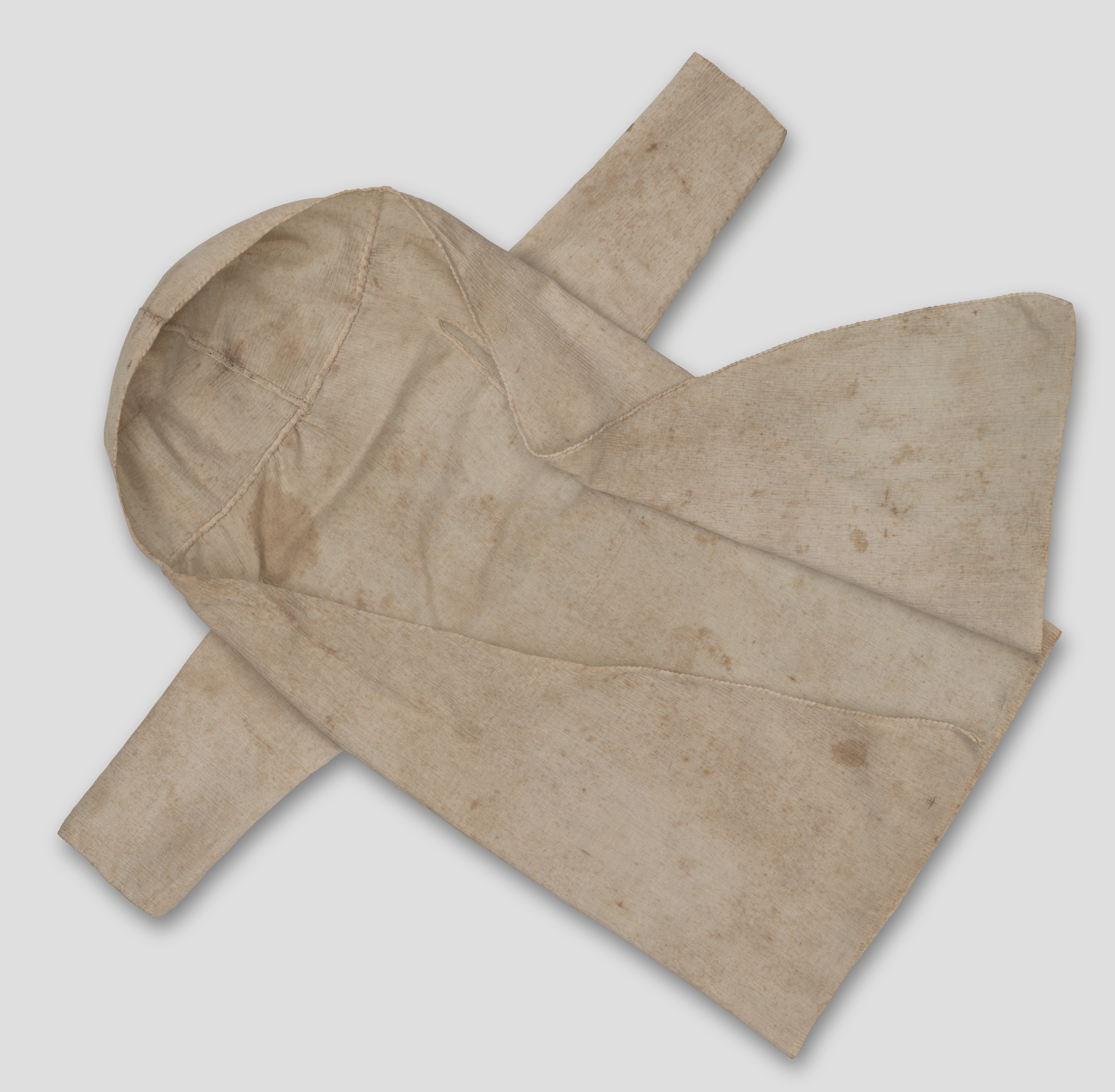 Cape with sleeves and attached hood, sewn bonnet to protect the Chrisambinde (?), Taufhemd a cult dress for a newborn godchild, Wester Shirt (vestis alba) was probably made in the 1490s for the first of seven children of Heinrich Bullinger (1469-1533) and his wife Anna Widerkehr made ​​(around 1475-1541). Whose youngest child was Heinrich Bullinger (1504-1575), theologian reformation, Zwingli's successor as the first Antistes the Zurich church